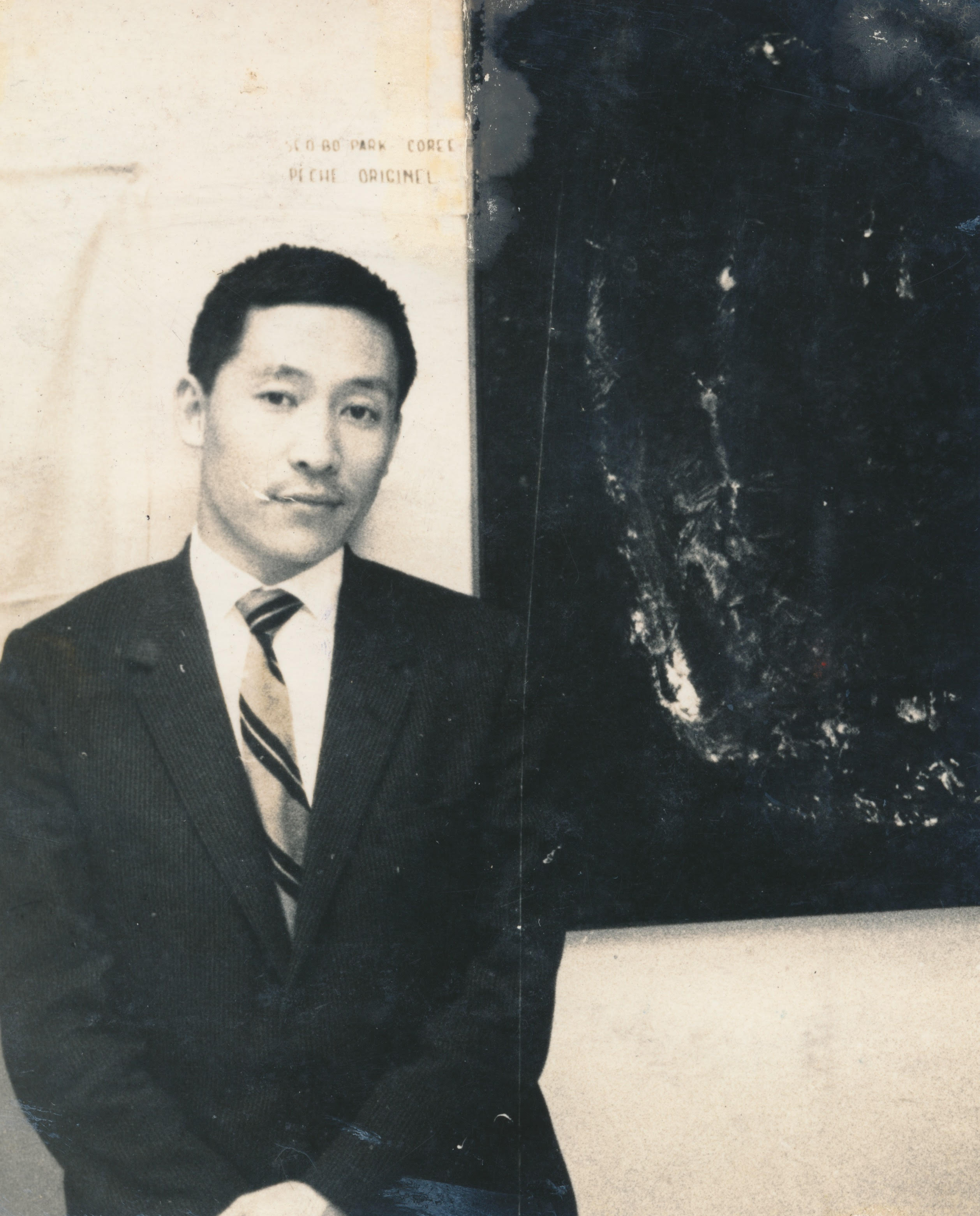 Park Seo-Bo stands in front of his painting at the group exhibition of the Young Painters of the World in Paris in 1961. The Young Painters of the World in Paris(Jeunes Peintres du Monde à Paris) was a one-month long residency program organized by the French committee of International Association of Visual Art(I.A.A./A.I.A.P.) and supported by UNESCO. Park Seo-Bo was a representative young artist of South Korea. The title of his painting was "Original Sin (Péché originel) and he produced it while in Paris.